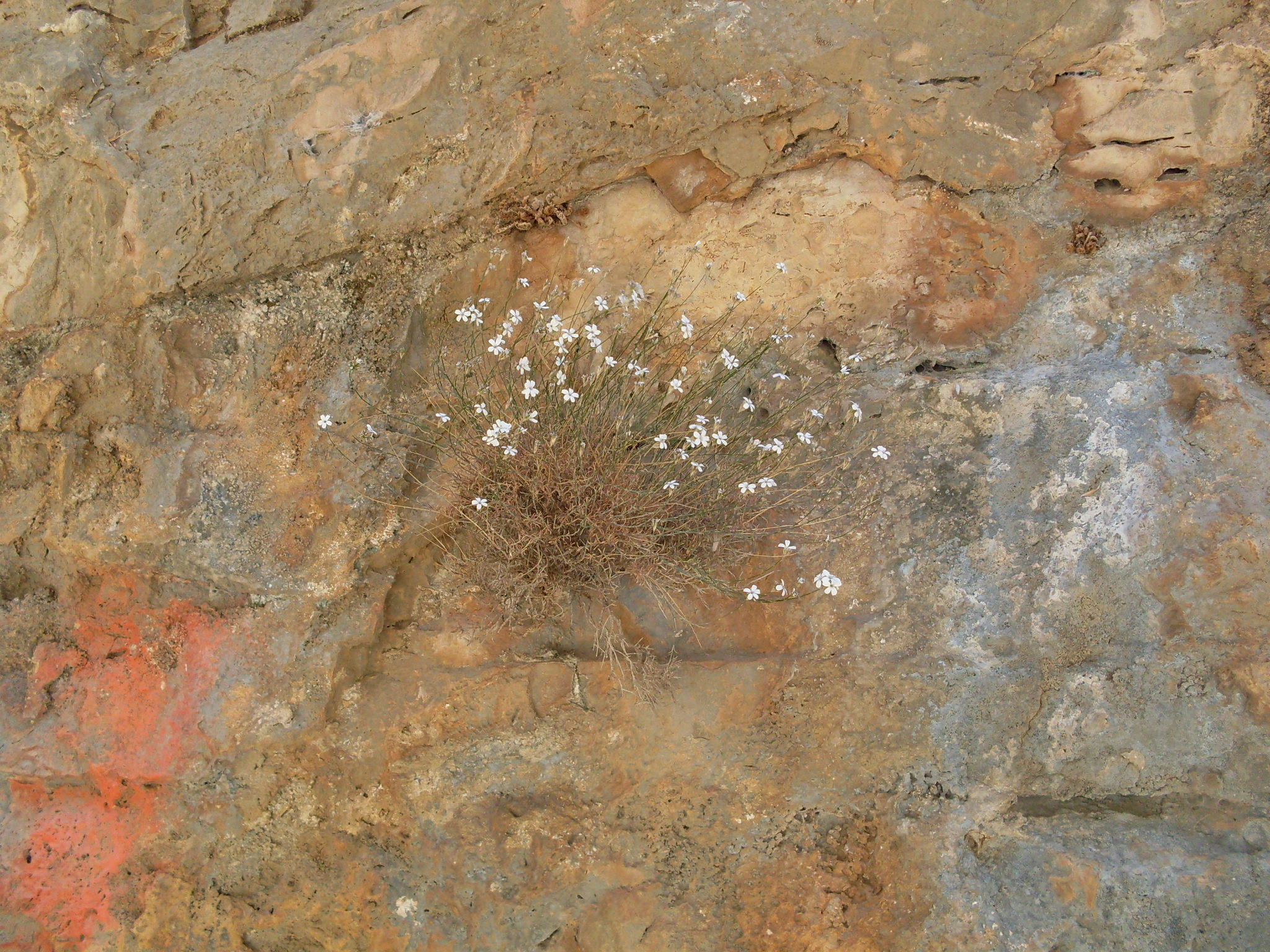 chasmophyte, Imbros gorge, Crete, Greece